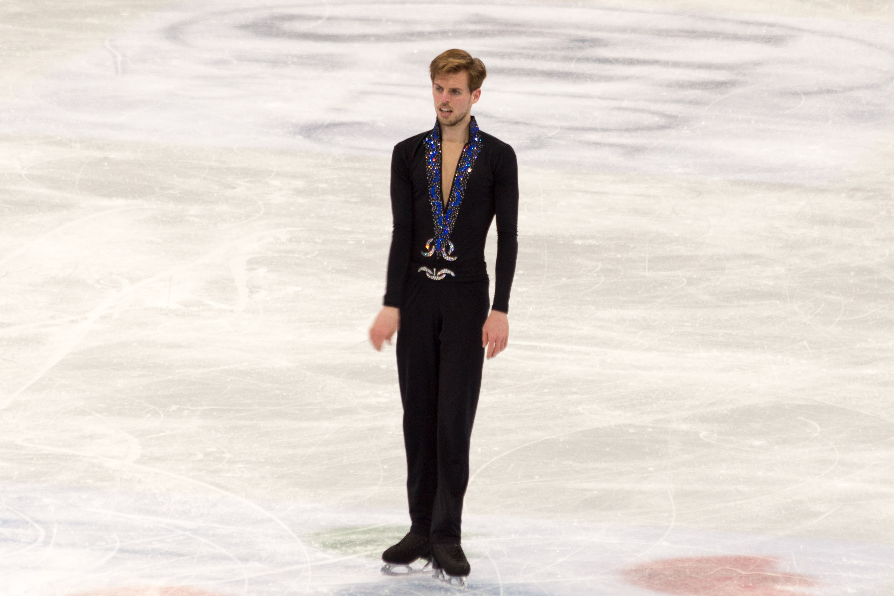 Stéphane Walker (Switzerland) after his short program at the 2017 World Figure Skating Championships